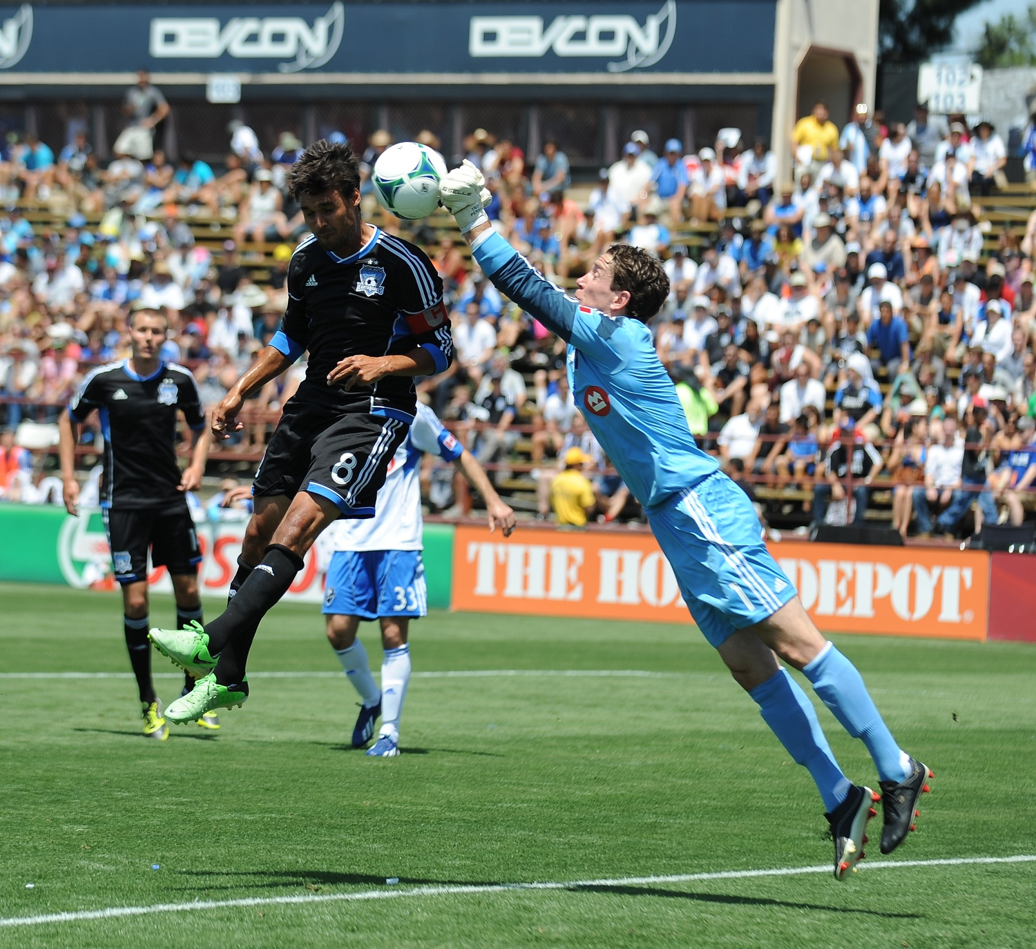 Montreal Impact goalkeeper Troy Perkins makes a save in front of Chris Wondolowski during a Major League Soccer match against the San Jose Earthquakes on 4 May 2013 at Buck Shaw Stadium.